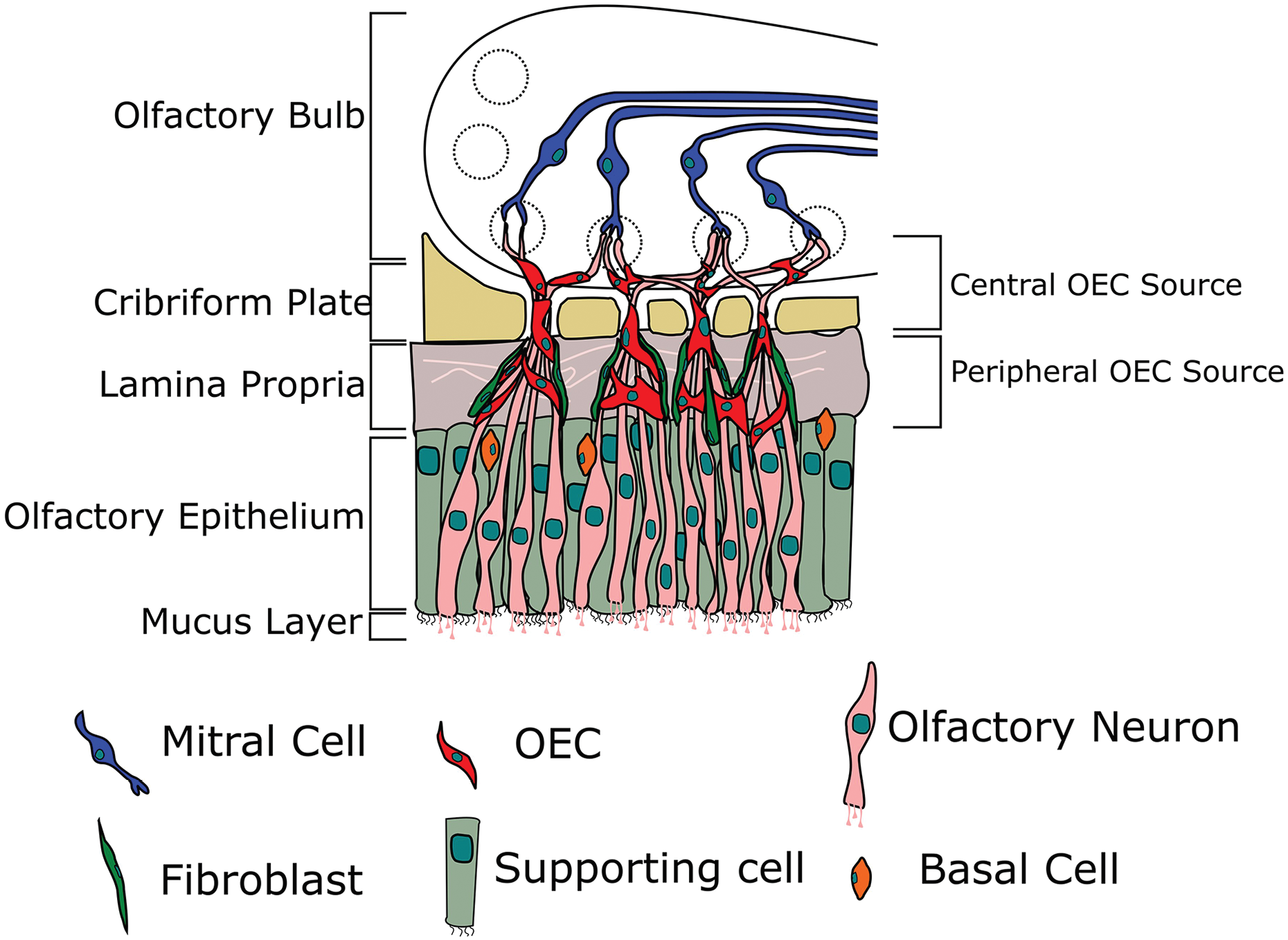 Location of olfactory ensheathing cells (OECs) within the olfactory system. Olfactory neurons extend axons from the nasal cavity through the cribriform plate and make connections within the glomeruli with mitral cells. OECs ensheathe the olfactory axons, aiding their growth and directing them to form their connections.